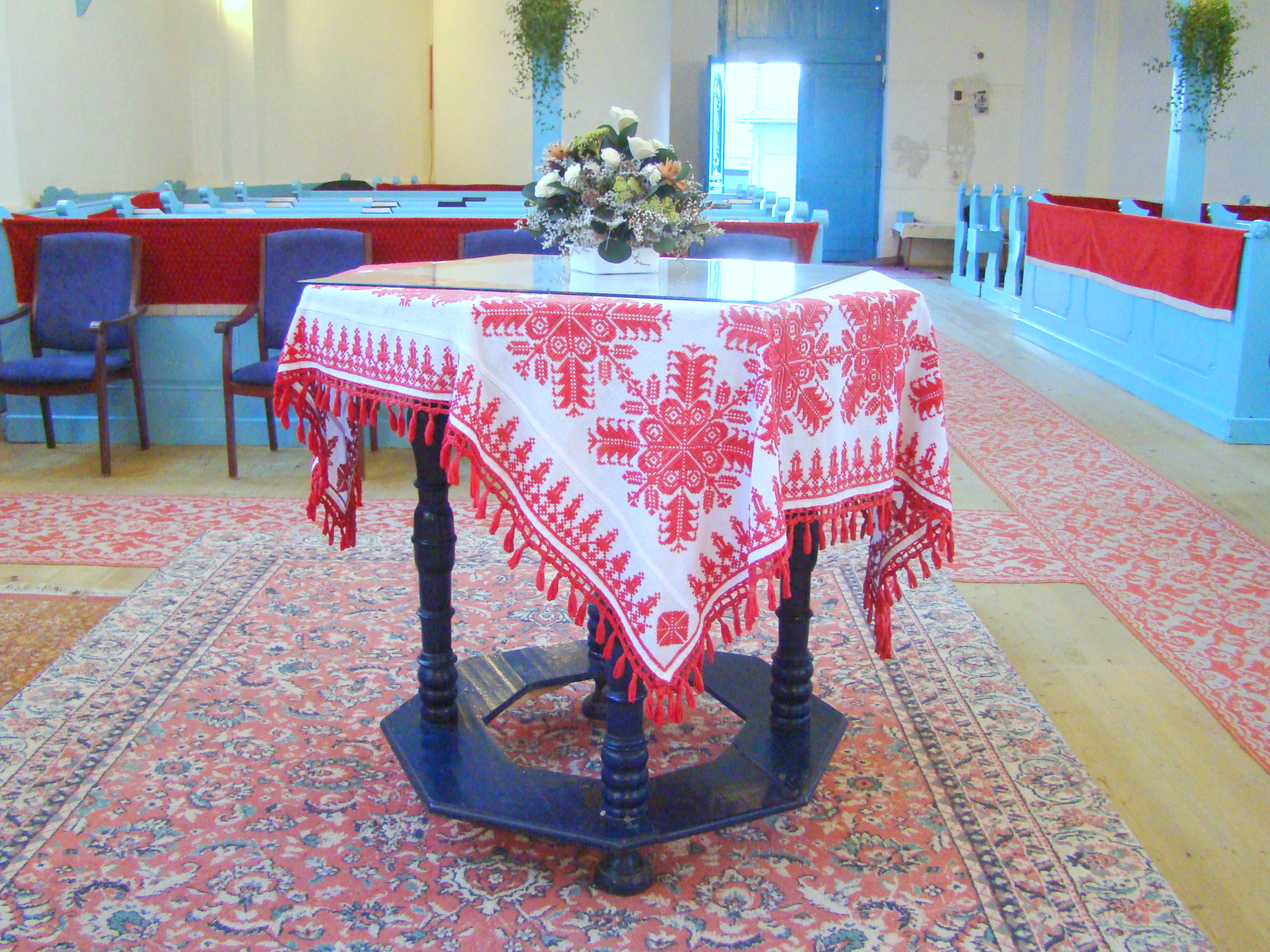 Reformed church in Ghindari, Mureş county, Romania